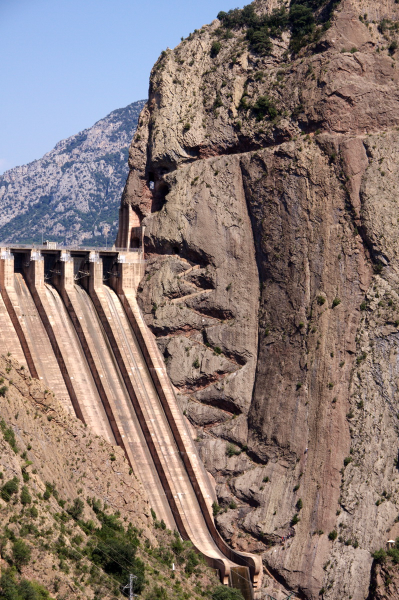 Dam at the Escales Reservoir (primarily in the Province of Lleida, Catalonia, along the border with the Province of Osca, Aragon), on the Noguera Ribagorçana River. Note the stairs carved in the rock of the cliff along the dam, lending the reservoir its name (escales = stairs in Catalan).